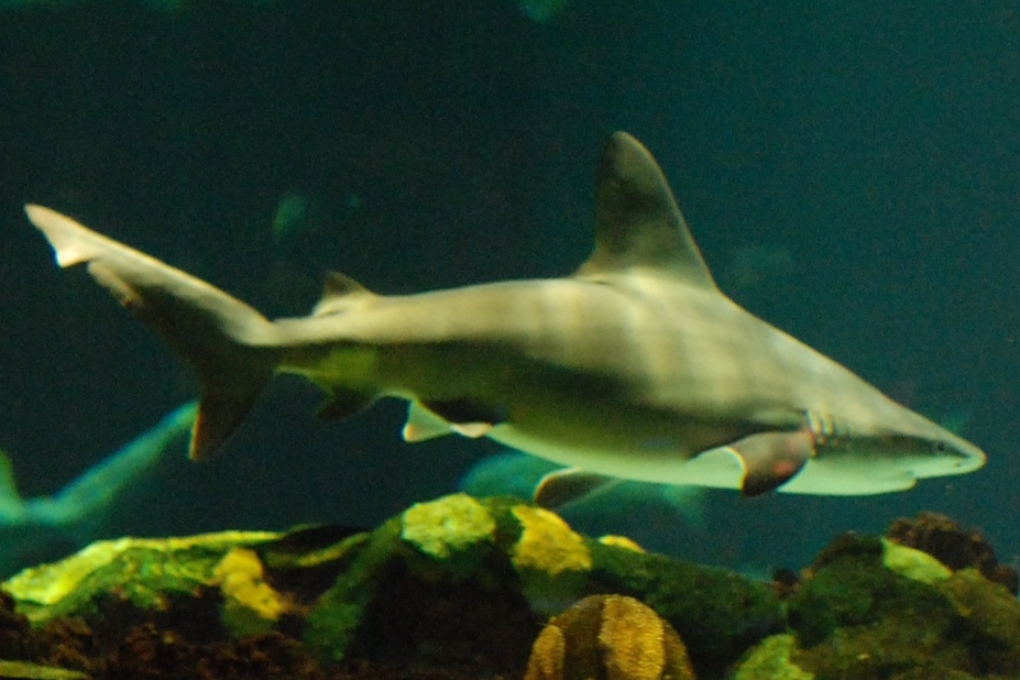 Sandbar shark (Carcharhinus plumbeus) at SeaWorld Sharks Underwater Grill